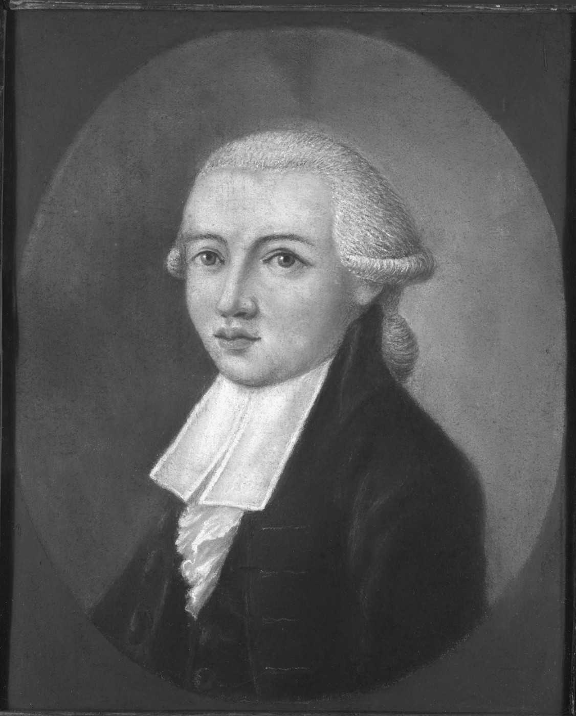 Portrait of Carl Wilhelm Justi